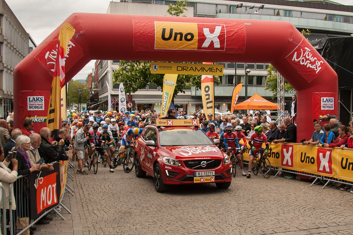 Two minutes left to the ceremonial start of stage 1 of Tour of Norway 2016 at Bragernes torg, Drammen.